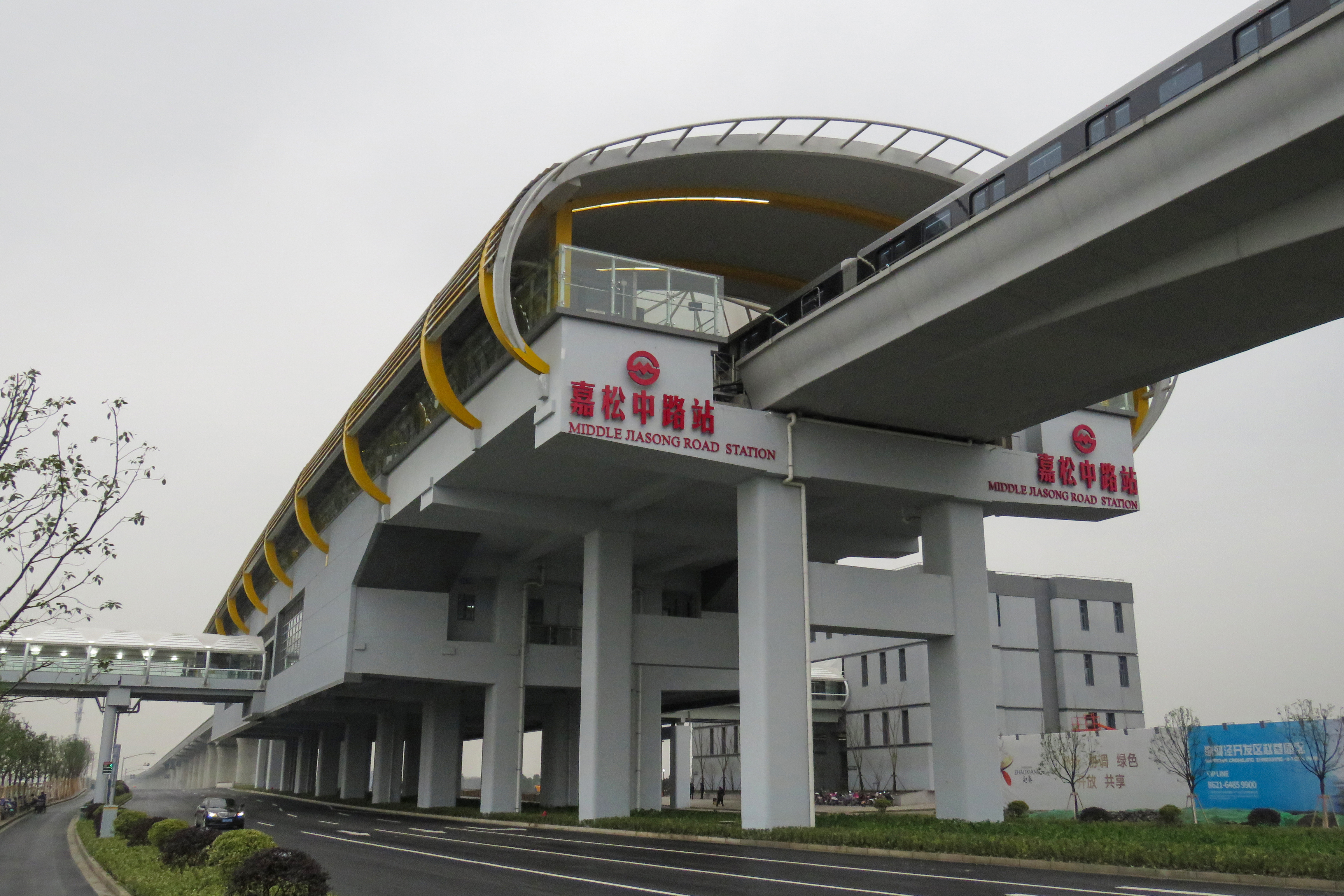 Adjacent to Bailian Outlets Plaza, although still some 900 meters away.